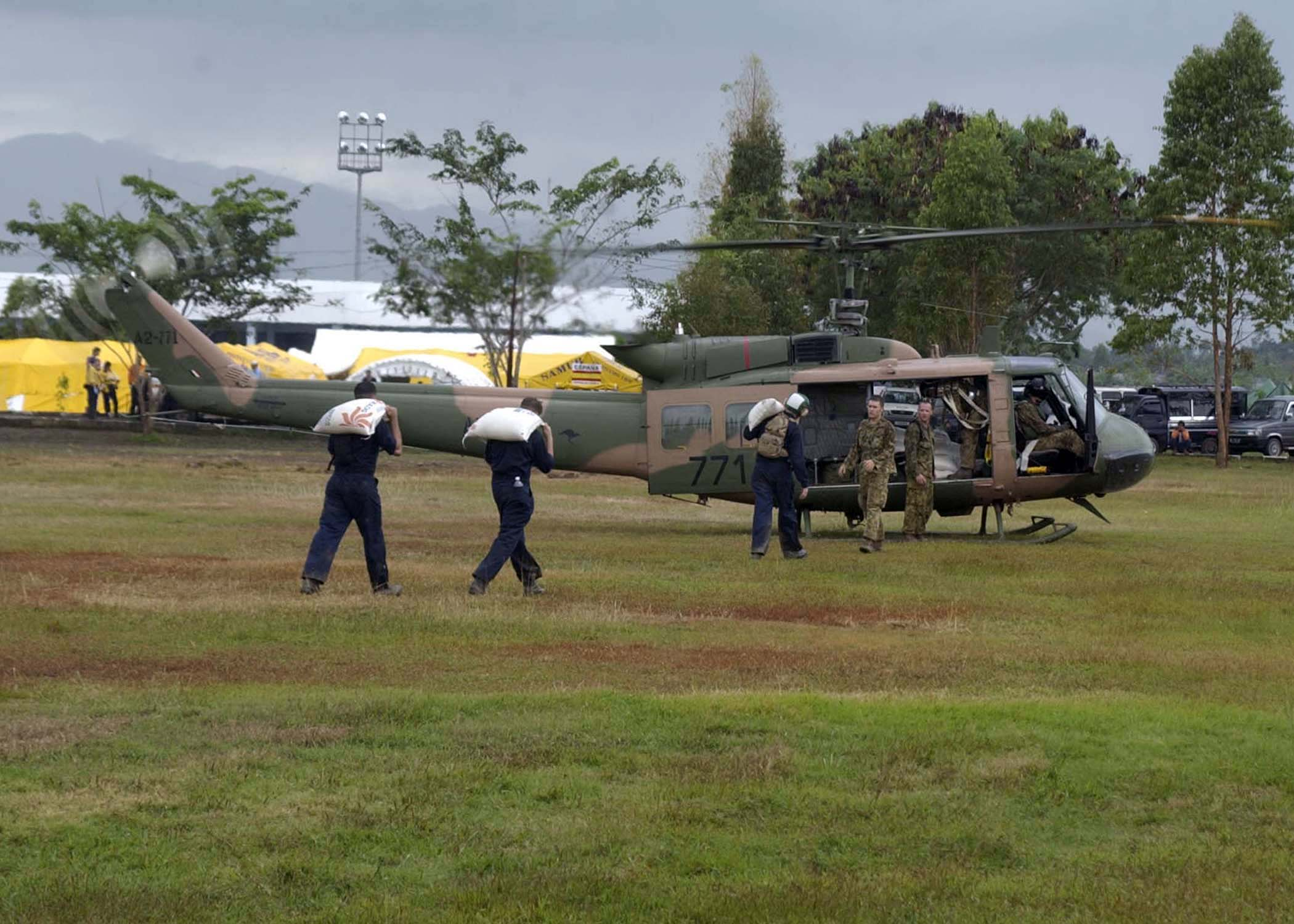 Banda Aceh, Sumatra, Indonesia (Jan. 12, 2005) - U.S. Navy Sailors carry relief supplies to an Australian Army UH-1 Iroquois helicopter at the Sultan Iskandar Muda Air Force Base in Banda Aceh on the island of Sumatra, Indonesia. Helicopters assigned to Carrier Air Wing Two (CVW-2) and Sailors from USS Abraham Lincoln (CVN 72) are supporting Operation Unified Assistance, the humanitarian operation effort in the wake of the Tsunami that struck South East Asia. The Abraham Lincoln Carrier Strike Group is currently operating in the Indian Ocean off the waters of Indonesia and Thailand. U.S. Navy photo by Photographer's Mate Airman Robert Kelley (RELEASED)